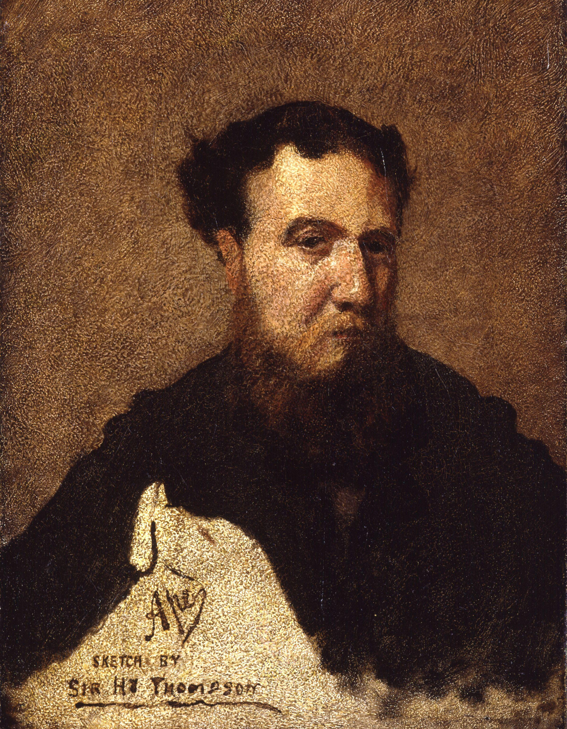 Carlo Pellegrini, by Sir Henry Thompson (died 1904), given to the National Portrait Gallery, London in 1955. All images in this batch have been confirmed as author died before 1939 according to the official death date listed by the NPG.